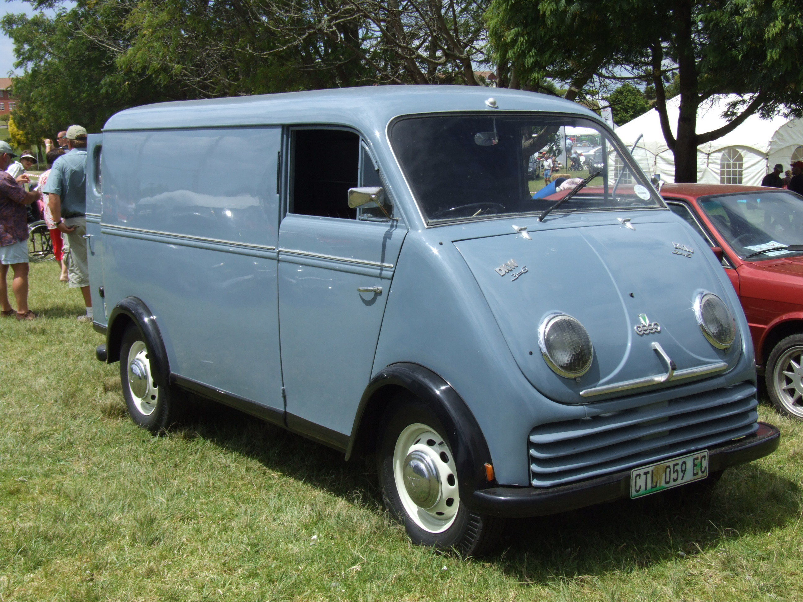 DKW Commercial 3=6